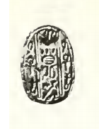 Picture of a scarab of hyksos pharaoh Khyan: "Prince of the desert Khyan, ankh nefer". Reign of Khyan, 15th dynasty, Second Intermediate Period.